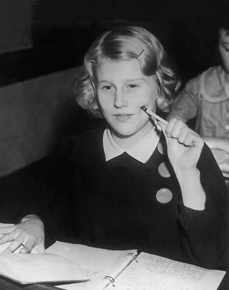 The American Olympic Champion Marjorie Gestring, On October 30, 1936. At The Age Of 13, The Springboard Diver Became The Youngest Gold Medalist.